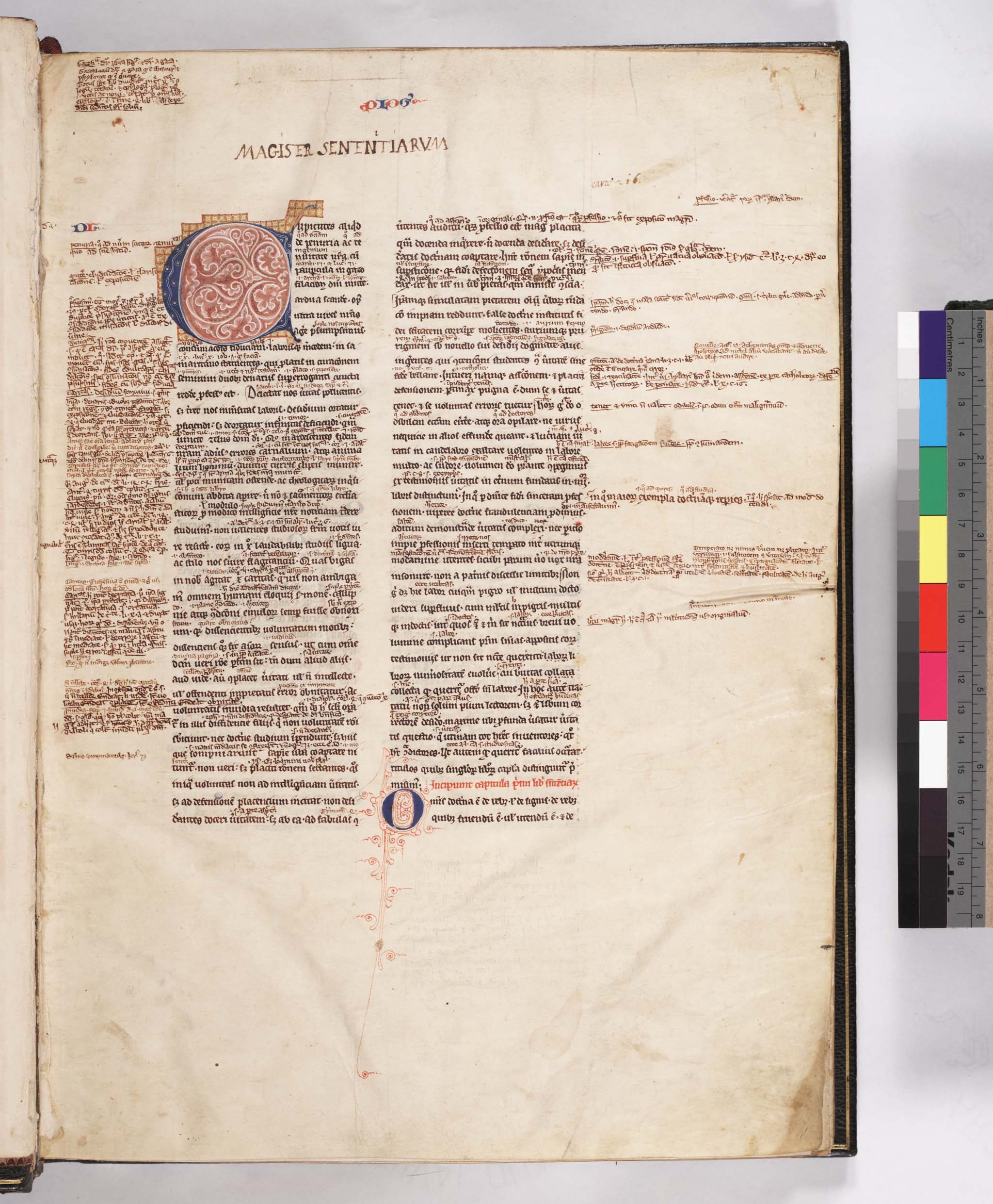 Opening of Peter Lombard's "Book of Sentences"